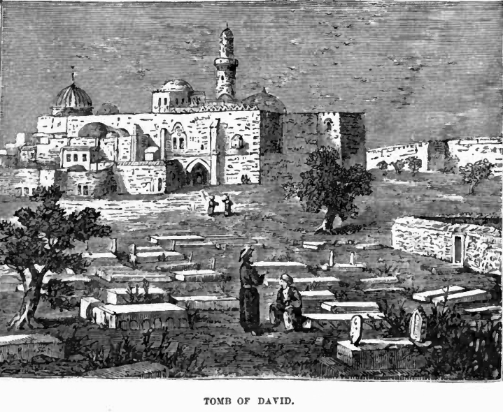 Tomb of David Mt zion 1887